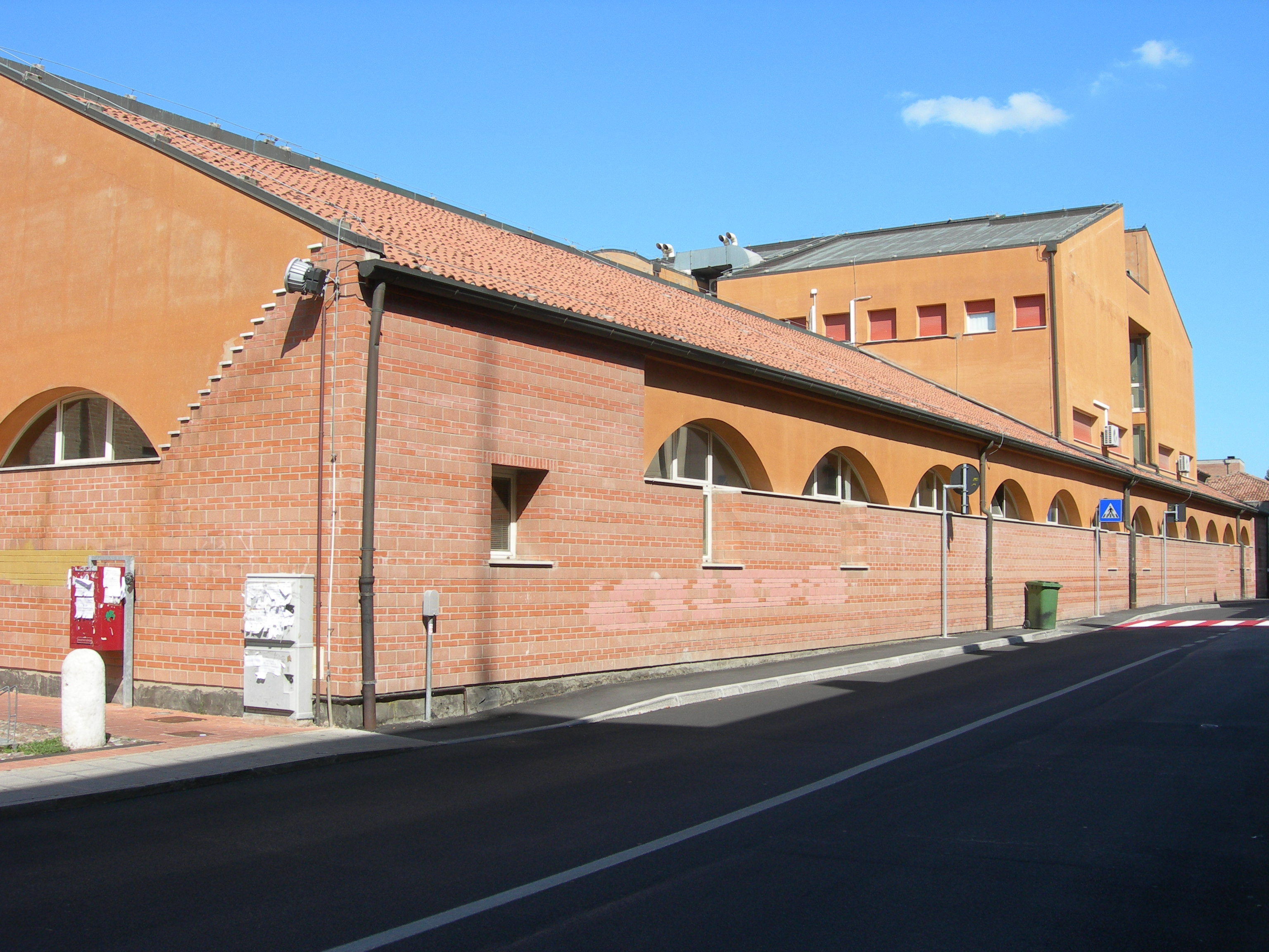 Bio-medical and Chemical Center